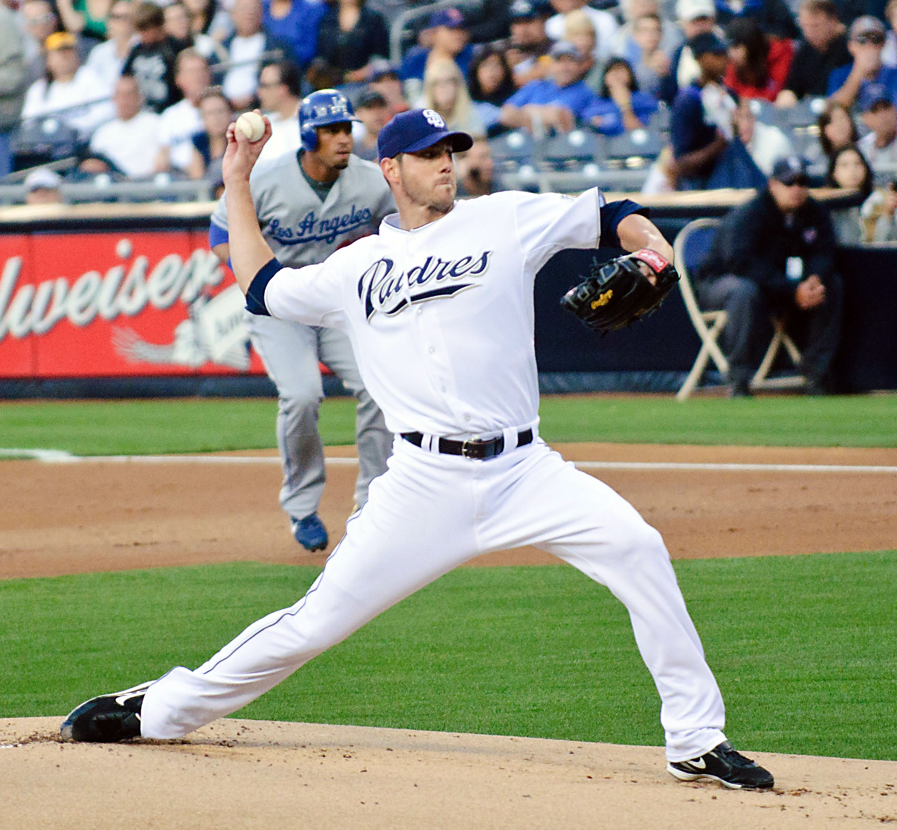 Garland at home in Petco Park.